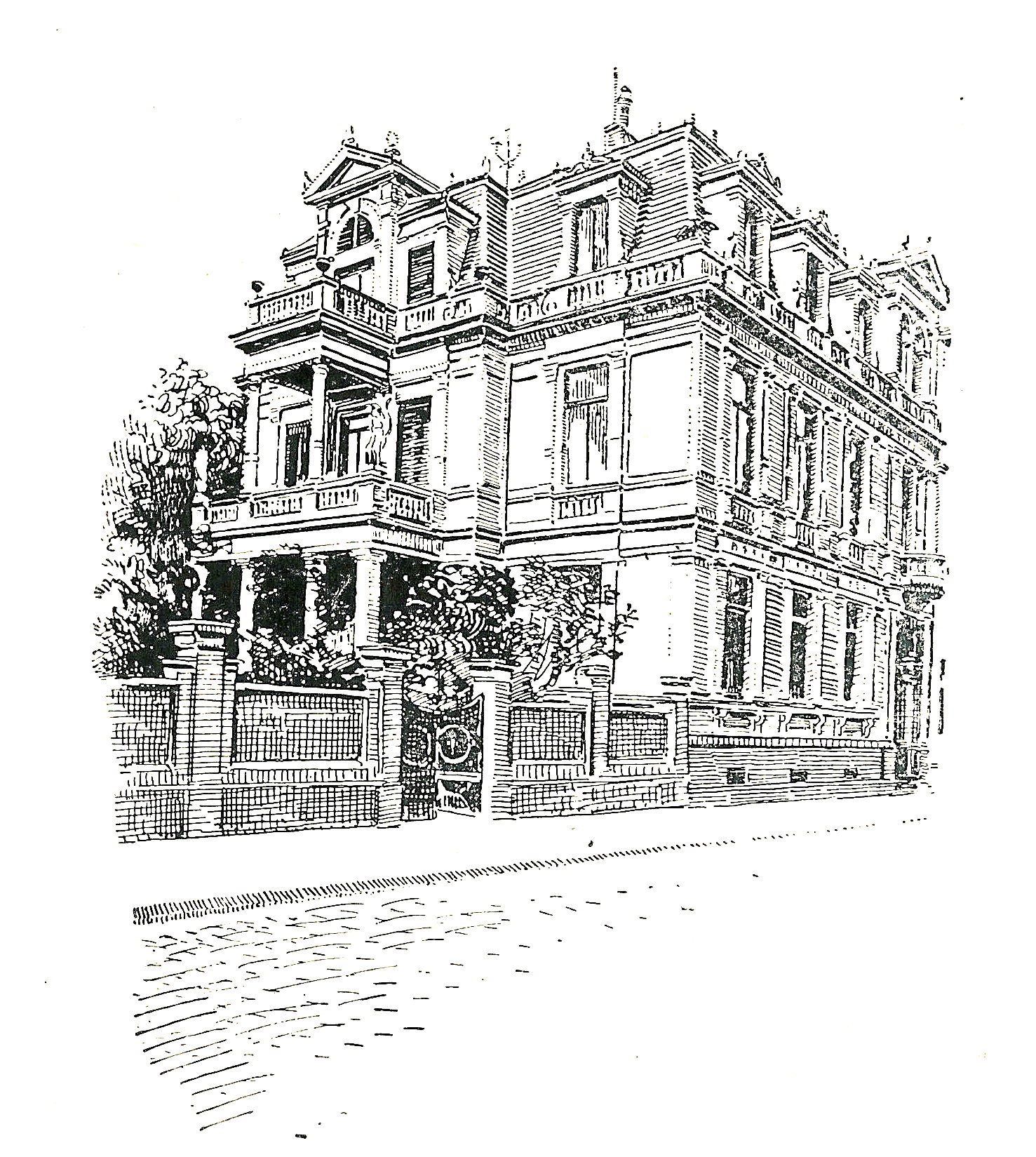 Former house of student fraternity Corps Borussia Bonn in Bonn/Germany, Kaiserstr. 52